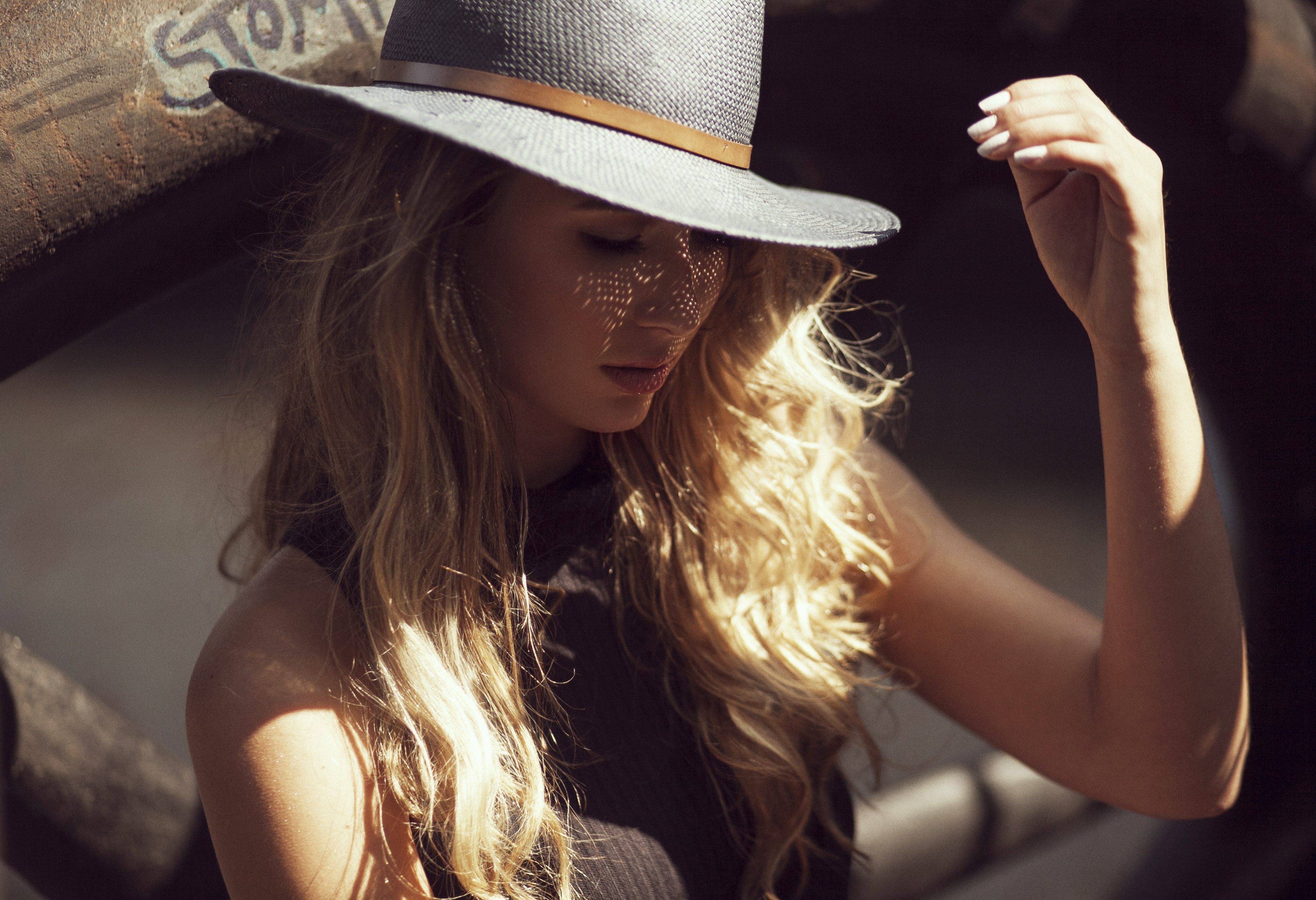 Cover photo for the single, "Drink About It".